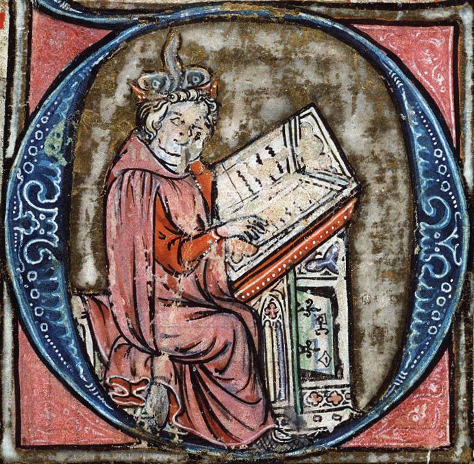 Jacob van Maerlant Contents: Jacob van Maerlant, Spieghel Historiael Place of origin, date: West Flanders; c. 1325-1335 Material: Vellum, ff. 258, 320x233 (253x175) mm, 60 lines, littera textualis, Binding: 19th-century brown leather; blind Decoration: 20 three-column miniatures (135/65x200/180 mm); 5 two-column miniatures (90/60x145/115 mm); 20 column miniatures (70/45x65/50 mm); 19 historiated initials (70/50x90/50 mm) with border decoration; penwork initials throughout Provenance: Purchased in 1782 at a sale in Ghent (cat. no. 267) by J.A. Clignett (d. 1827); by descent to the Koninklijke Nederlandse Akademie van Wetenschappen (Royal Dutch Academy of Sciences), Amsterdam